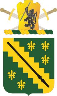 38th Cavalery coat of arms